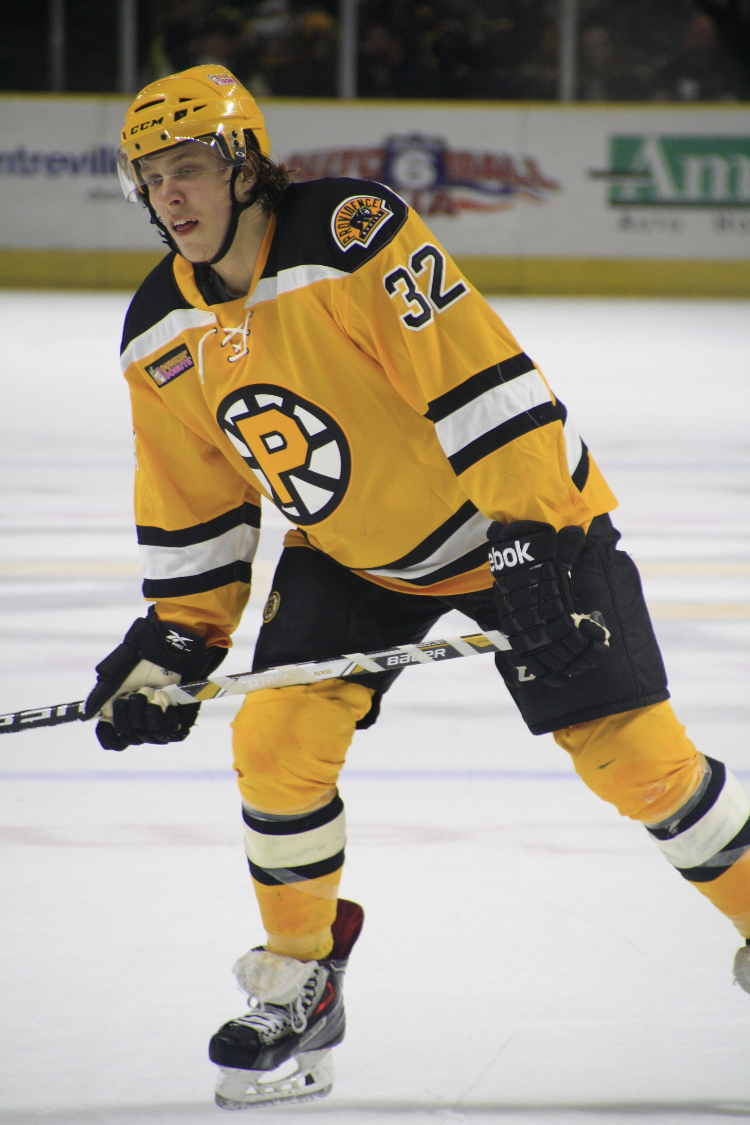 David Pastrnak playing for Providence Bruins